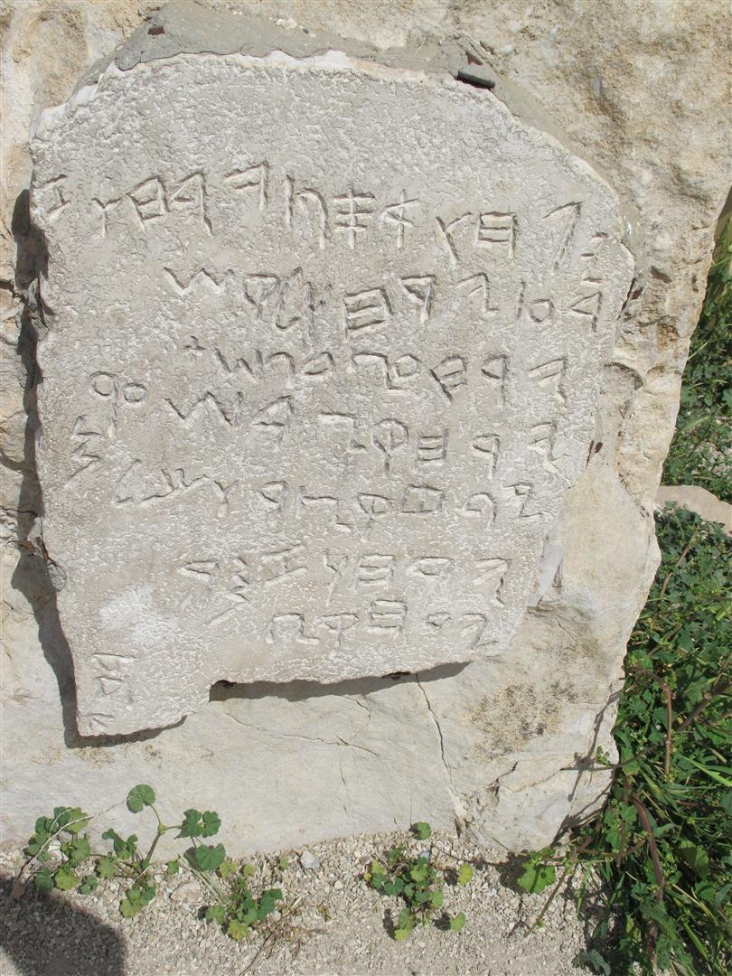 The ancient agricultural calendar that was found in Tel Gezer. The tablet discovered here is one of the oldest surviving Hebrew texts, written in the 'paleo-Hebrew' letters that were the norm in Judah before the Babylonian exile in the 6th century BCE. This text also provides key information about the agricultural cycle in ancient Israel.